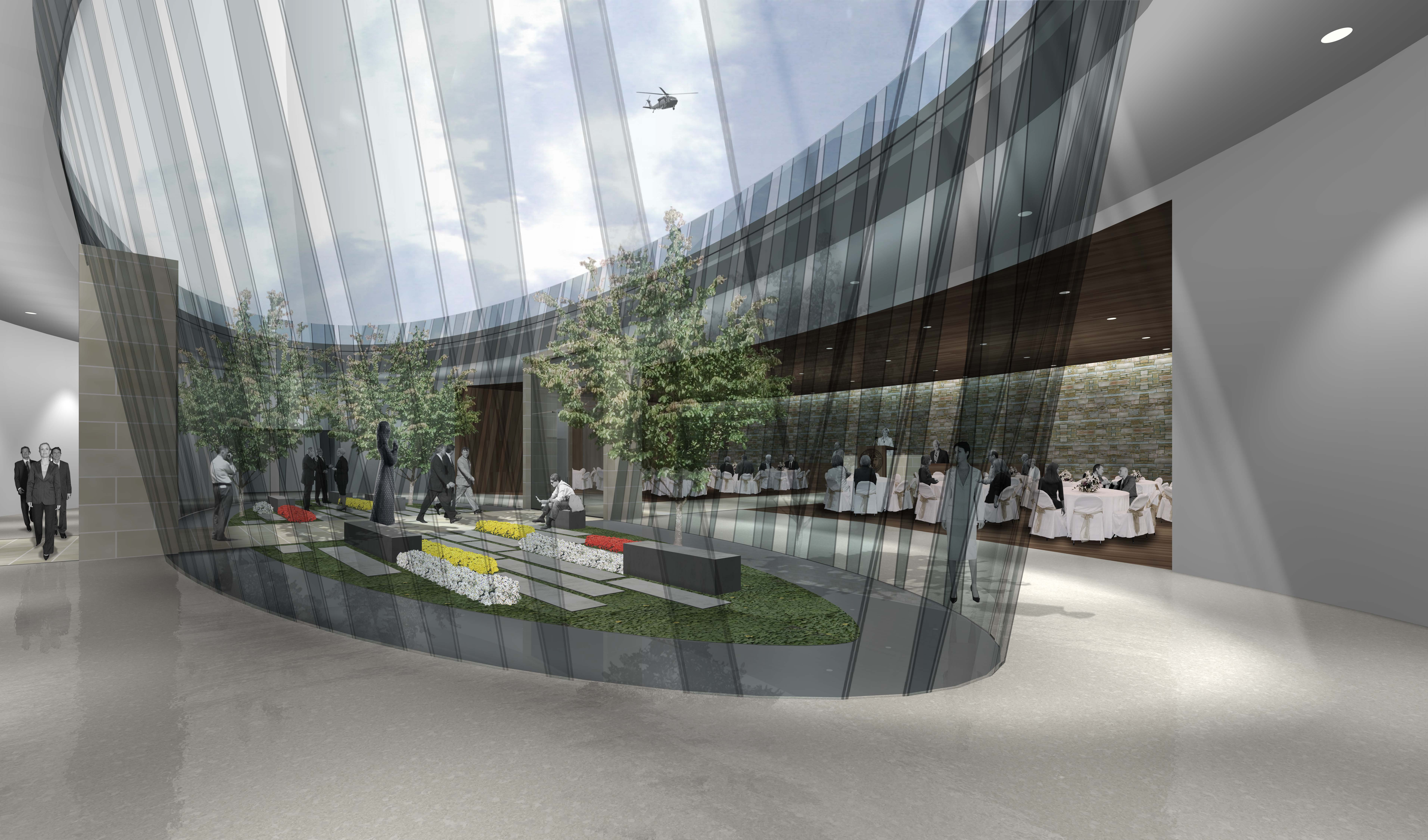 Rendering of Conservation Hall